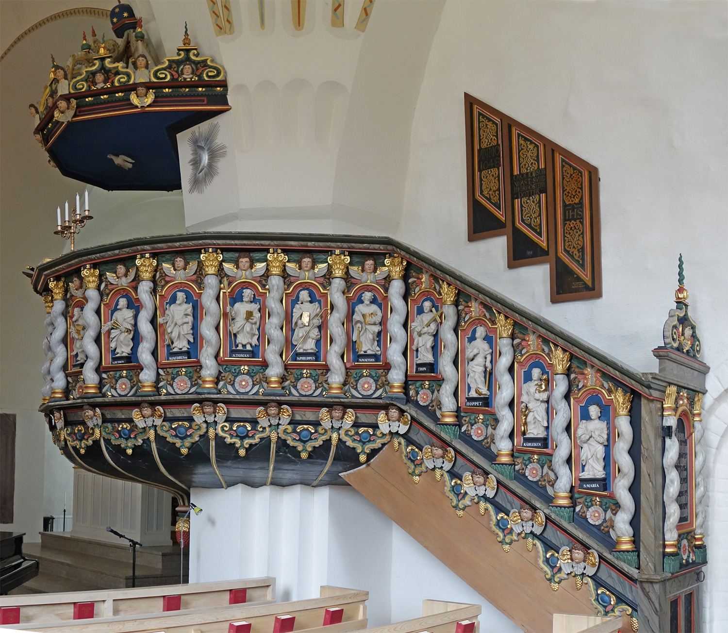 The pulpit of Öjeby church, Piteå, northern Sweden. It was carved in 1706 by Nils Jacobsson Fluur.